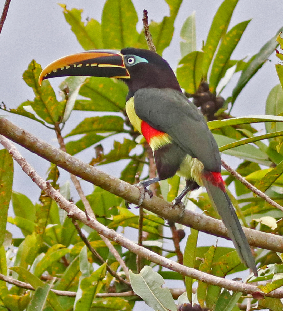 photo of a Chestnut-eared Aracari taken at San Jorge Sumaco Balo near Loreto, Ecuador